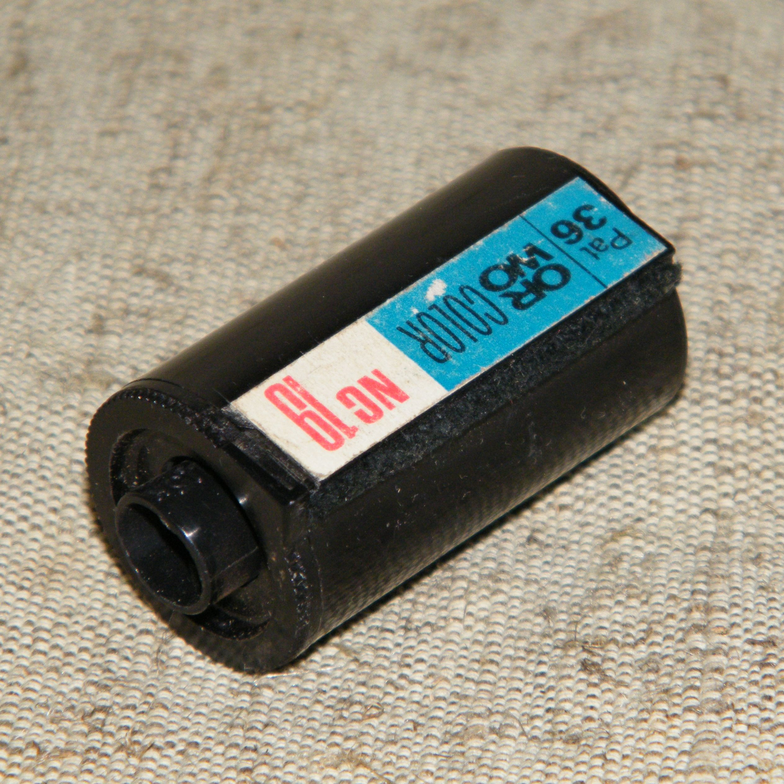 Кассета ORWOCOLOR NC-19